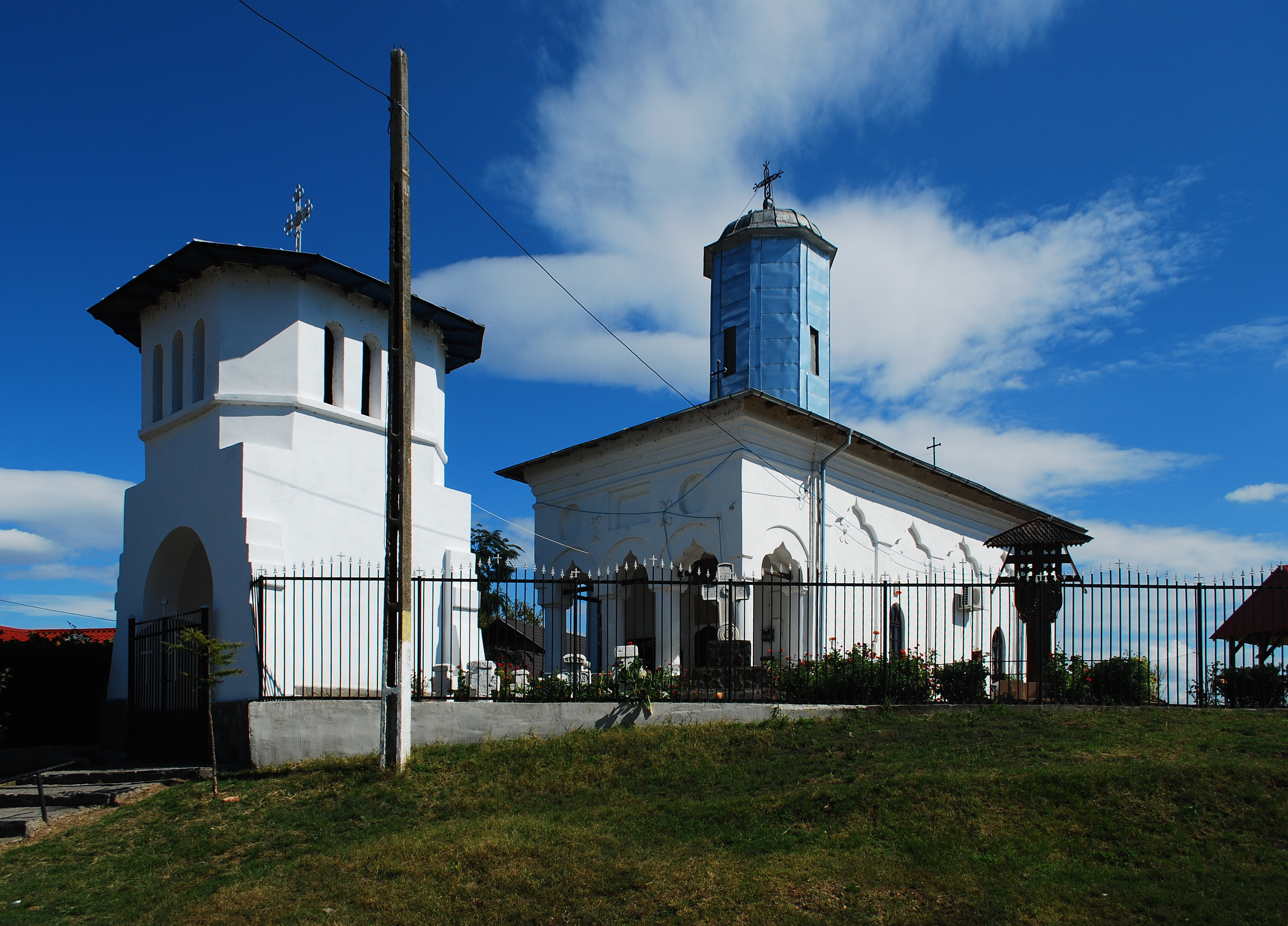 Church of the Nativity of the Teotokos in Cojeşti, Belciugatele commune, Călăraşi County, RomaniaRomână: Biserica „Nașterea Maicii Domnului” din satul Cojești, comuna Belciugatele, județul Călărași, România